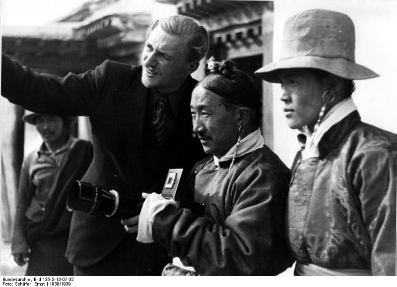 Lhasa, die Expedition wird von Regierungsmitgliedern besucht Information added by Wikimedia users.